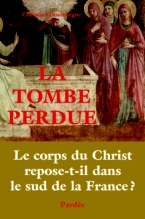 Cover of the french book "La Tombe Perdue" ("The Lost Tomb")